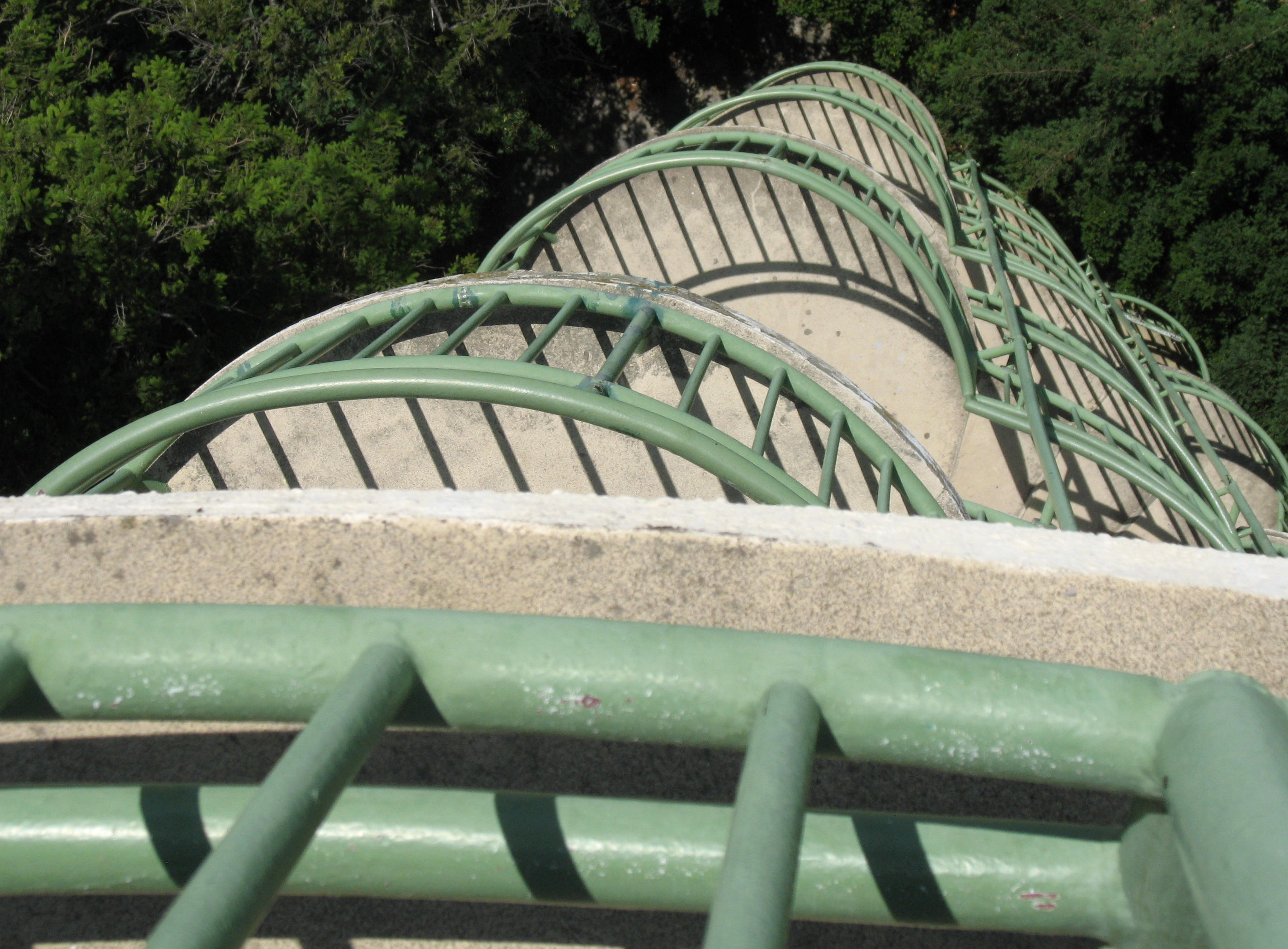 Jubiläumswarte ("jubilee tower") — in Vienna, Austria.